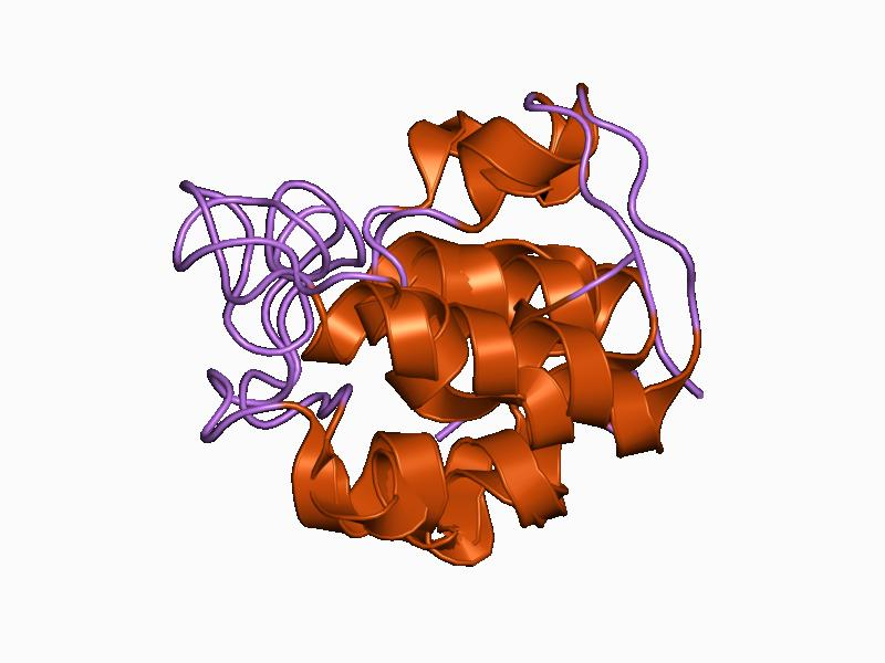 Cartoon representation of the molecular structure of protein registered with 1acp code.